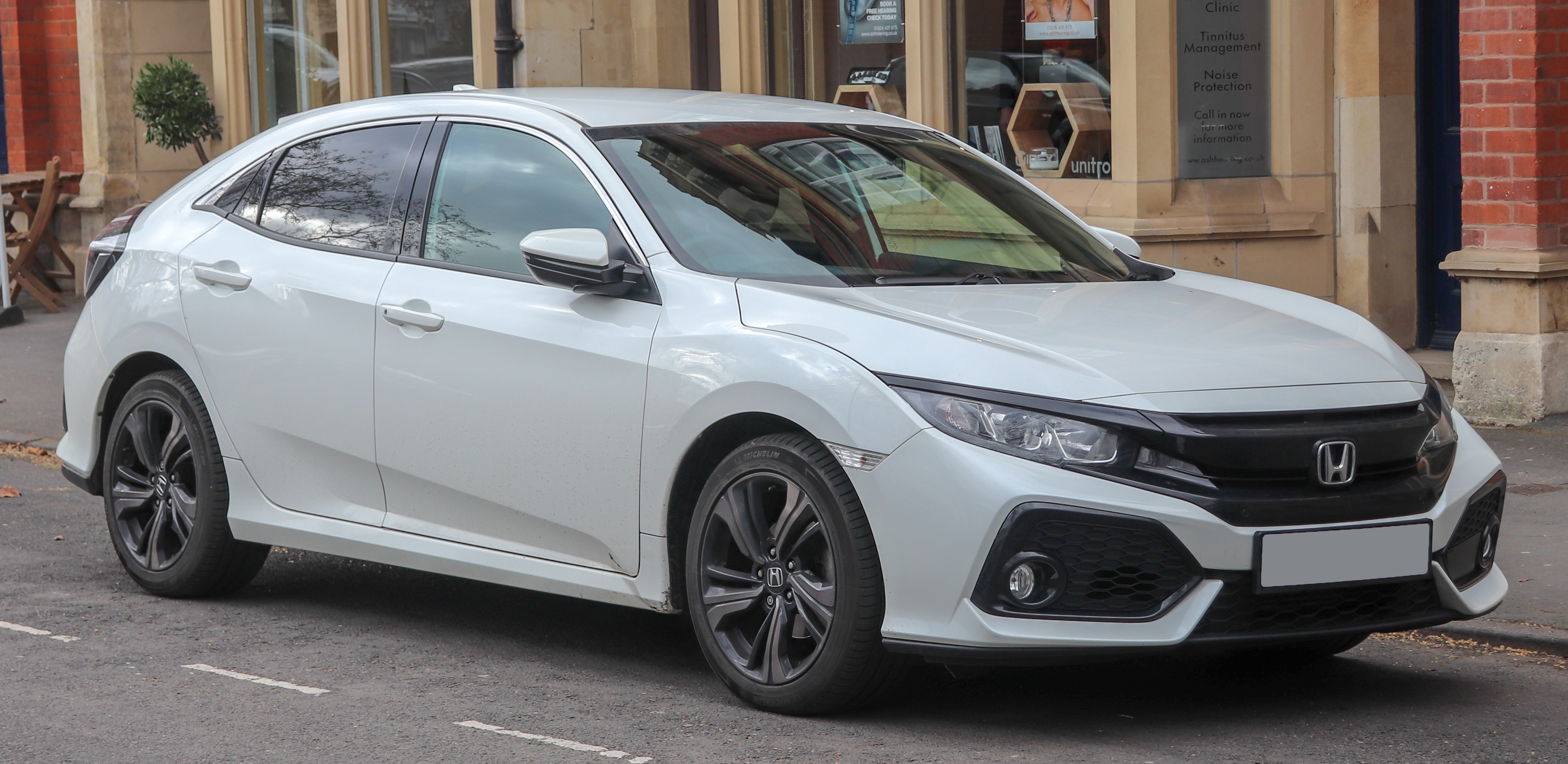 2017 Honda Civic SR VTEC 1.0 Front Taken in Leamington Spa